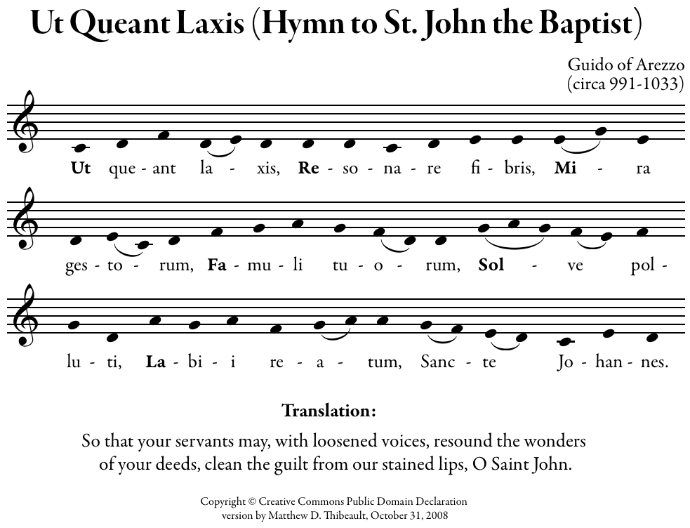 Ut queant laxis or Hymnus in Ioannem is a Latin hymn in honour of John the Baptist written in Horatian Sapphics and traditionally attributed to Paulus Diaconus, the eighth century Lombard historian.